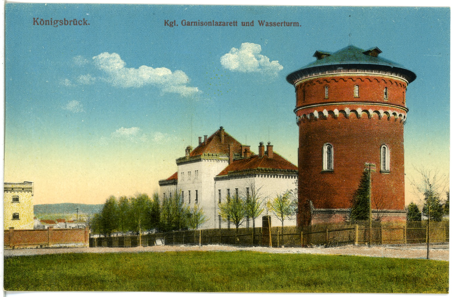 This postcard is from publisher Brück & Sohn in Meißen ( This postcard has a unique number 18716 and is available in a higher resolution at the publisher. This images was uploaded in a cooperation project between Wikipedians and the publisher.